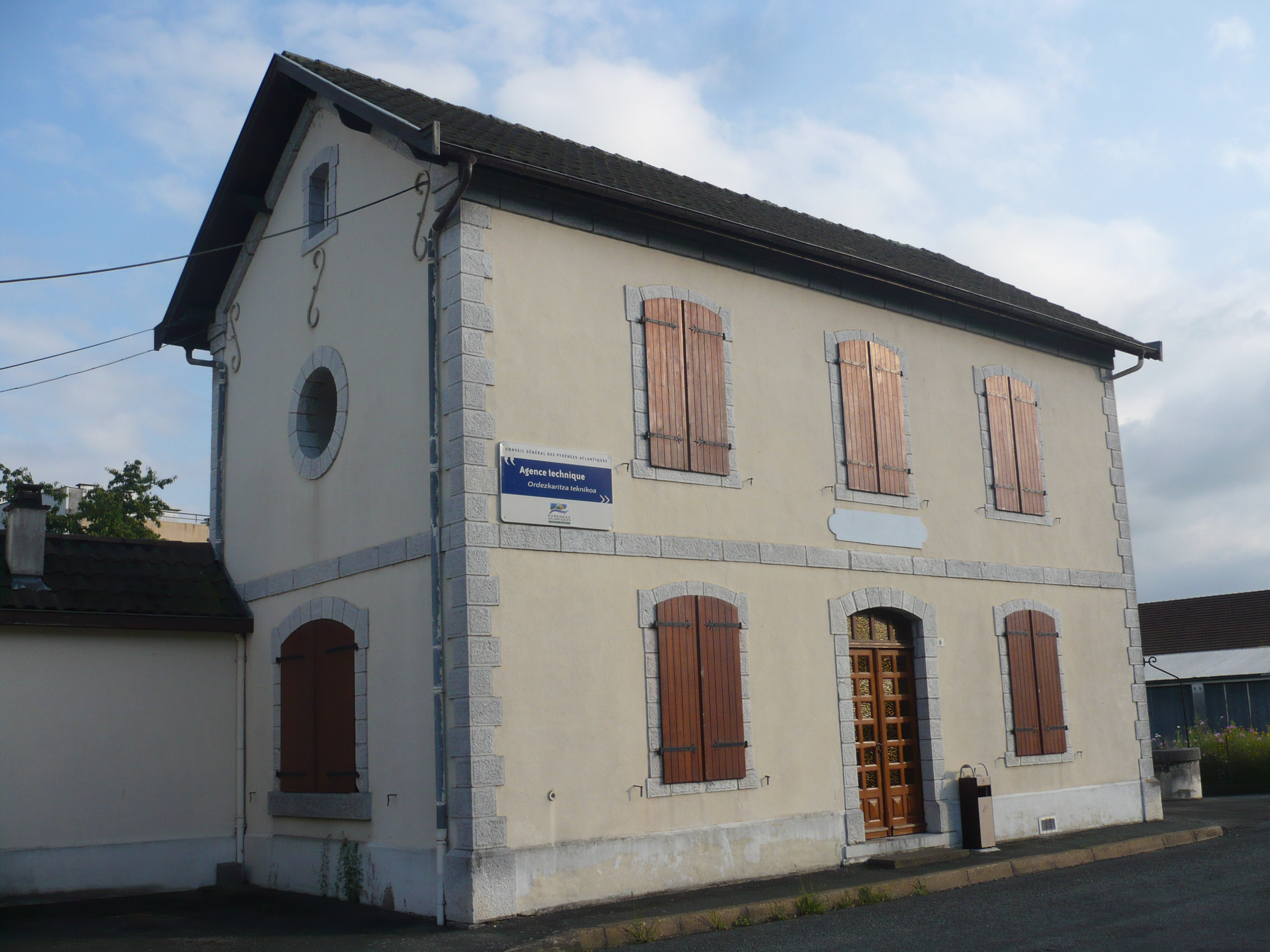 One of the buildings of the disappeared Maule (fr. Mauléon) train station, Matalas street, Lextarre (fr. Licharre), Maule-Lextarre, Zuberoa-Soule, Basque Country.